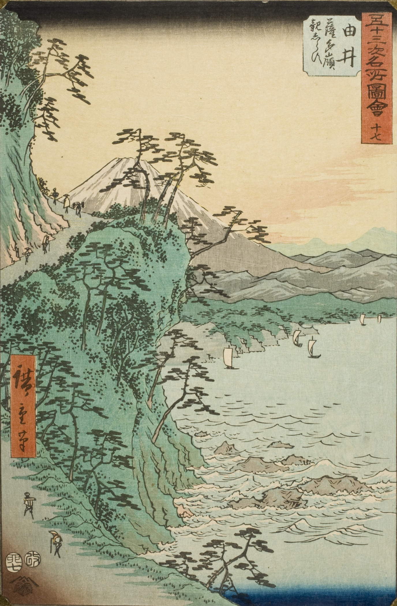 1855 Series: Famous Views of the Fifty-three Stations Volume, number, page: 17 Prints; woodcuts Color woodblock print Image and Sheet: 13 1/2 x 8 7/8 in. (34.29 x 23 cm) The Joan Elizabeth Tanney Bequest (M.2006.136.318) Japanese Art